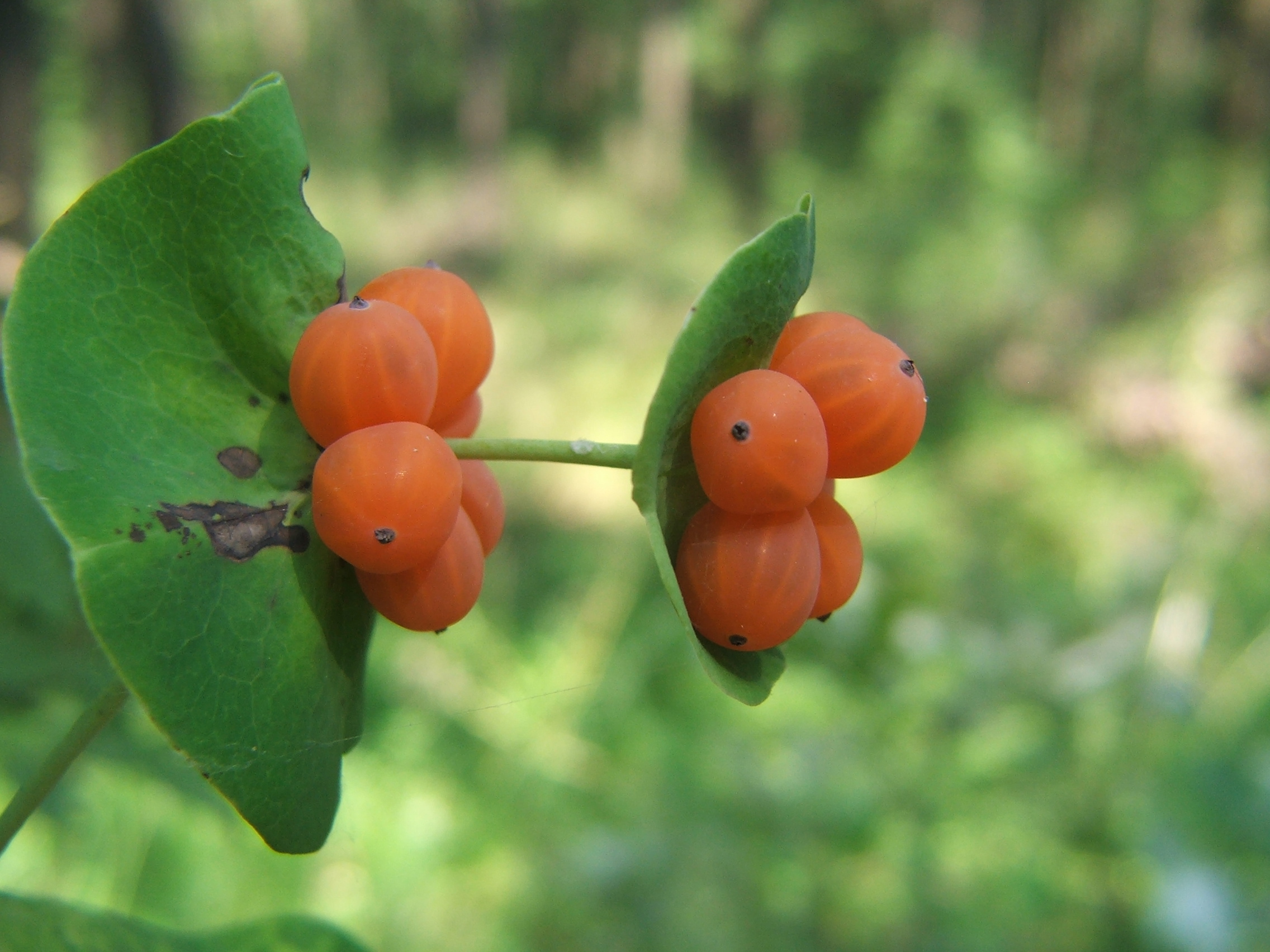 Fruits of Lonicera caprifolium